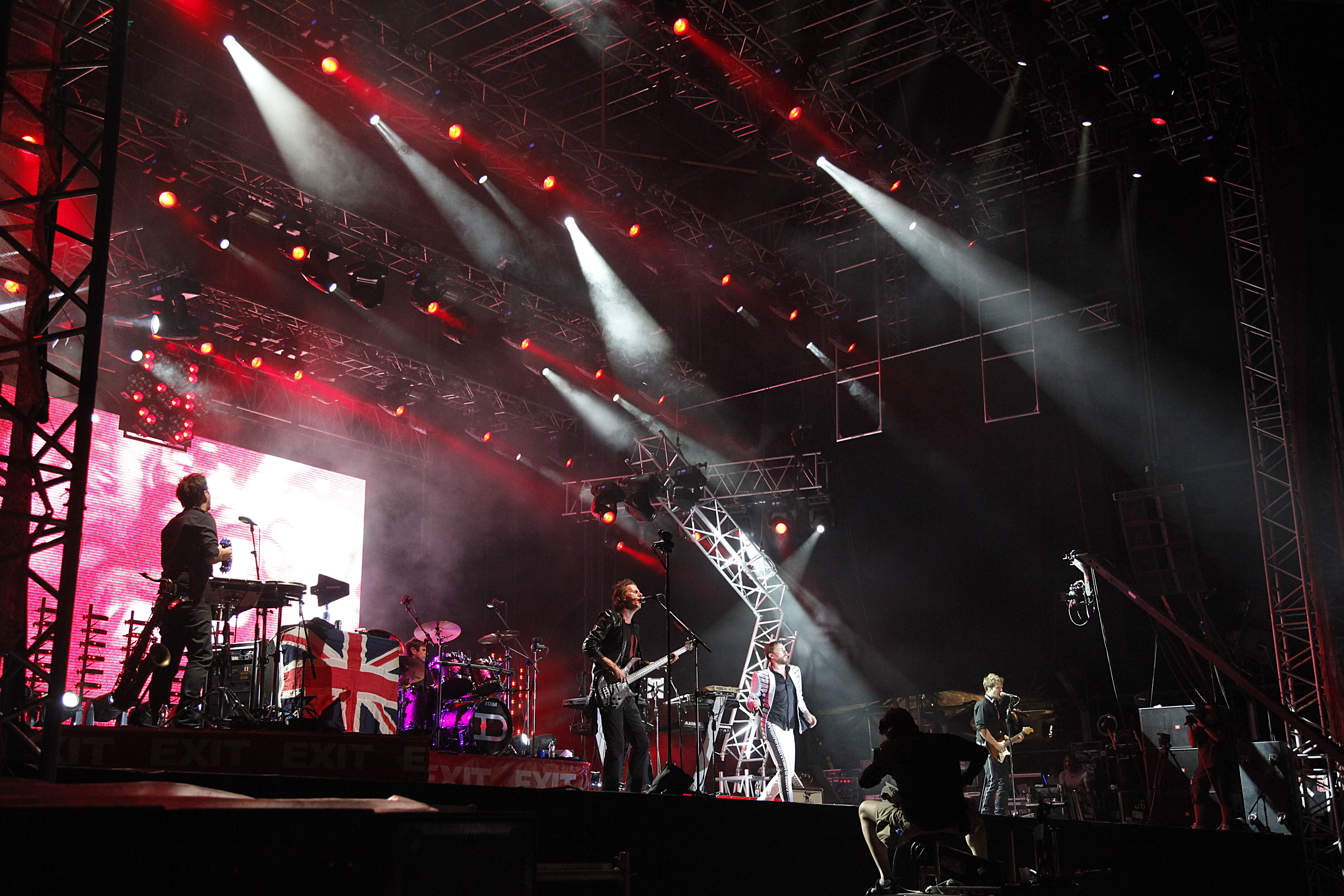 Duran Duran, EXIT 2012.